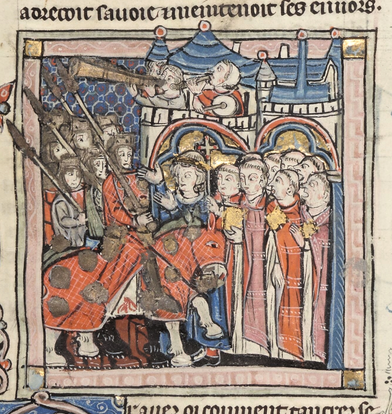 Arrivée de Baudouin Ier à Édesse